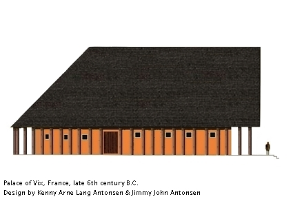 Vix palace. Based on drawing from Dr.M.N Filgis & K.B. Rothe.